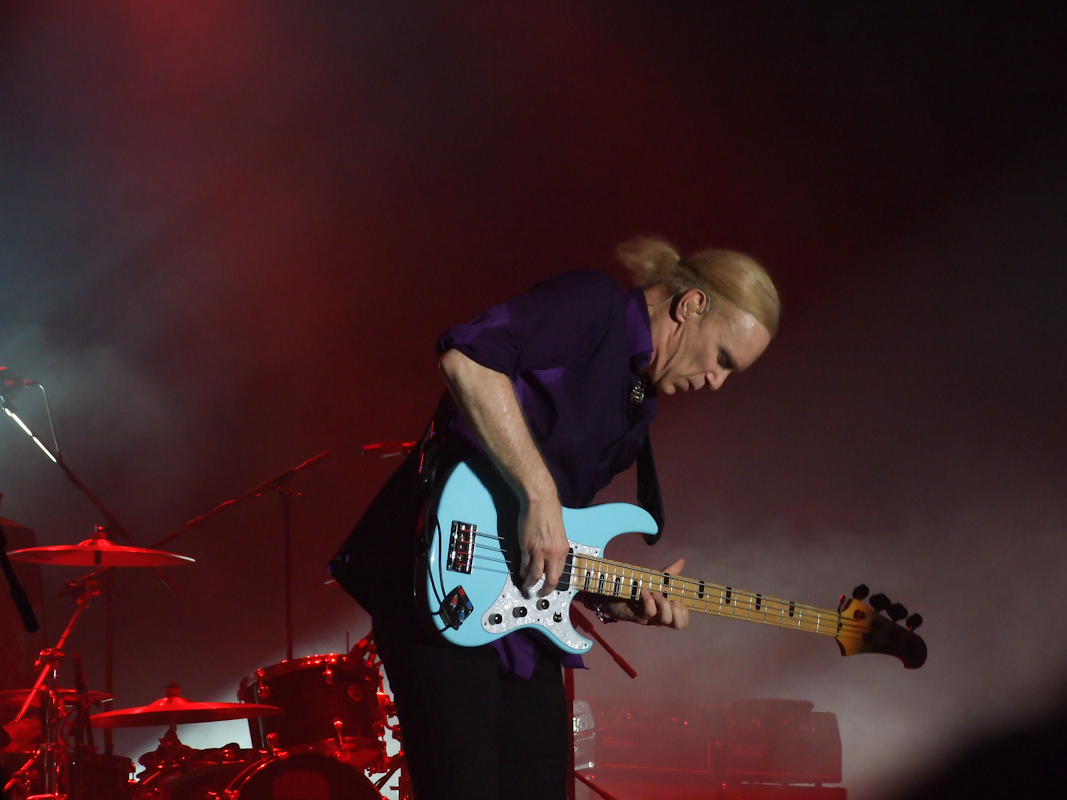 Billy Sheehan - bass guitarist of the hard rock band Mr. Big. The photo was taken during the Mr.Big concert at Festivalna Hall, Sofia, Bulgaria.